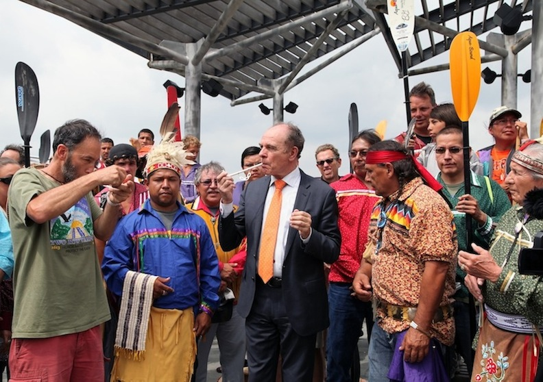 Two Row Wampum Treaty, 400th Anniversary Celebration in July and August 2013: Dutch UN Consul Rob de Vos, Haudenosaunee leaders Jake Edwards, Oren Lyons, and Hickory Edwards, and NOON coordinator Andy Mager renew the Two Row Treaty